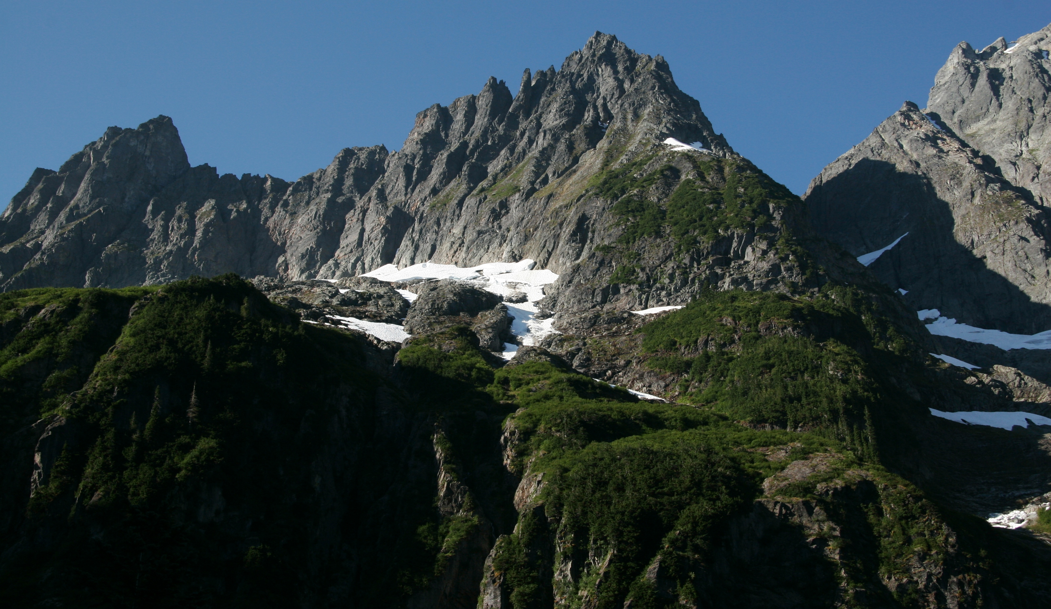 Cascade Peak in the North Cascades National Park of WA